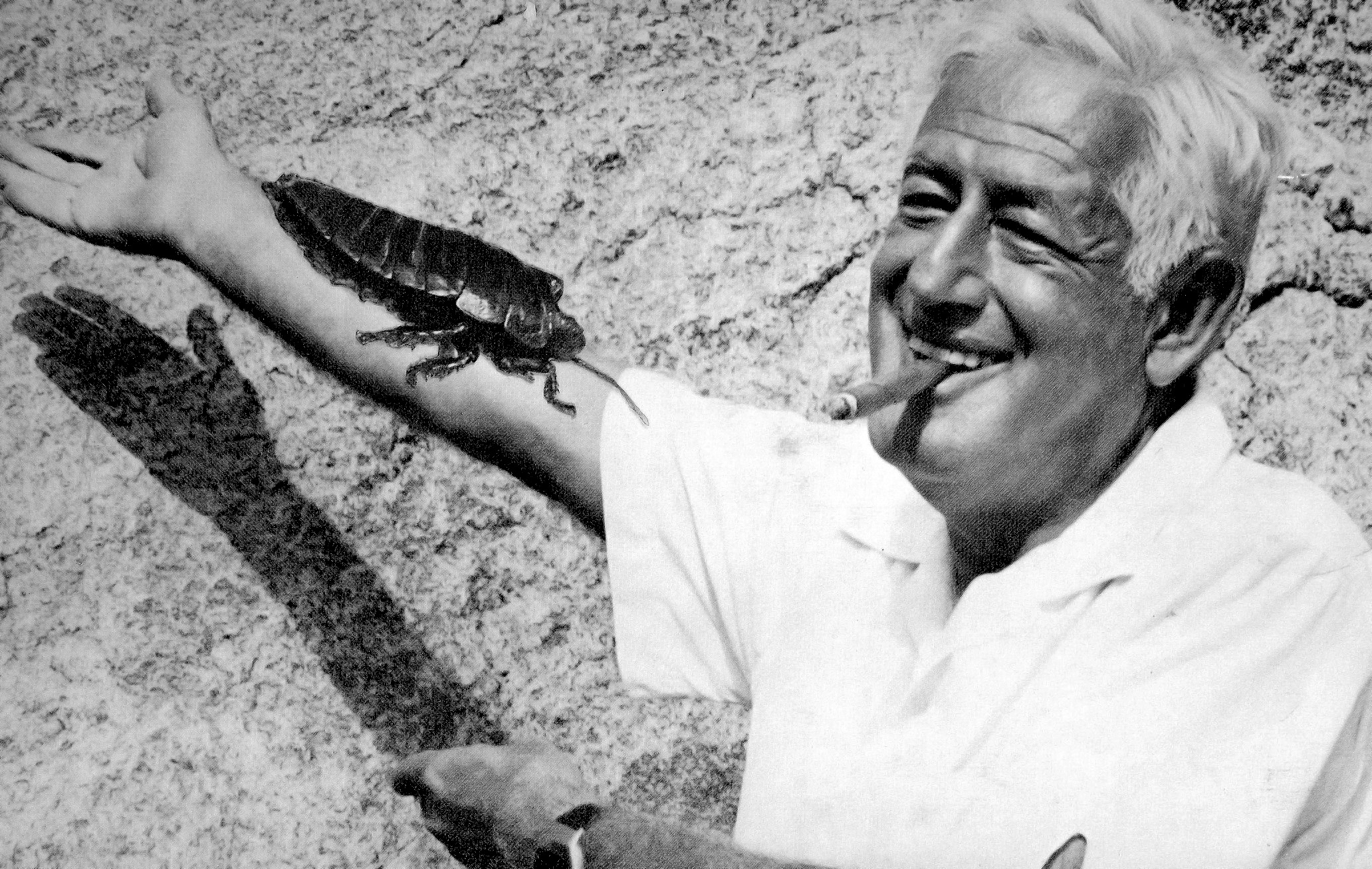 American filmmaker William Castle with a massive, fake cockroach on his arm during production of the 1975 film Bug. The portrait was used the back of the dust jacket of his 1976 book Step Right Up! ... I'm Gonna Scare the Pants Off America. The right inside flap carries the caption: "On back of jacket: The author poses cheerfully with candidate for a starring role in his newest chiller."